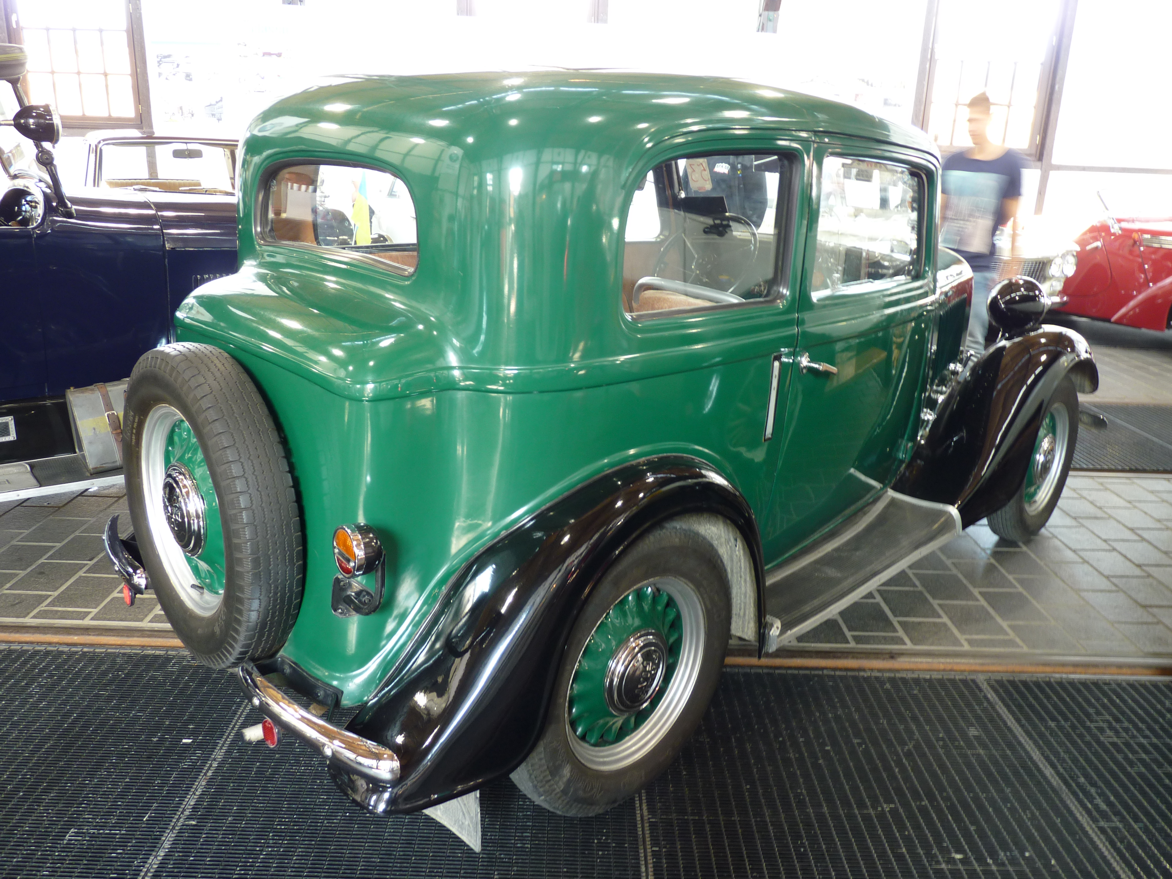 Classic Moto Show 2014 in Kraków. The categories of this image should be checked. Check them now! Remove redundant categories and try to put this image in the most specific category/categories Remove this template by clicking here (or on the first line)